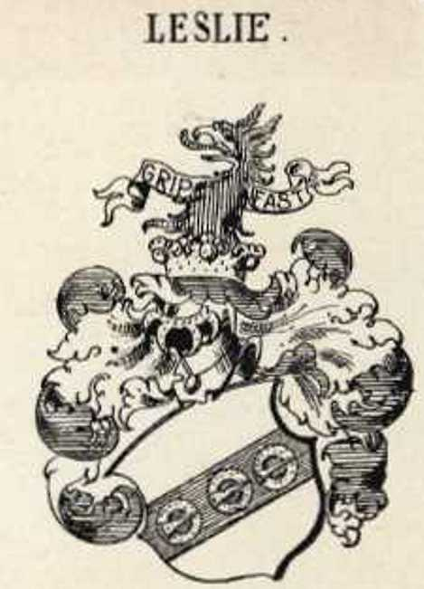 Coat of Arms of Leslie family